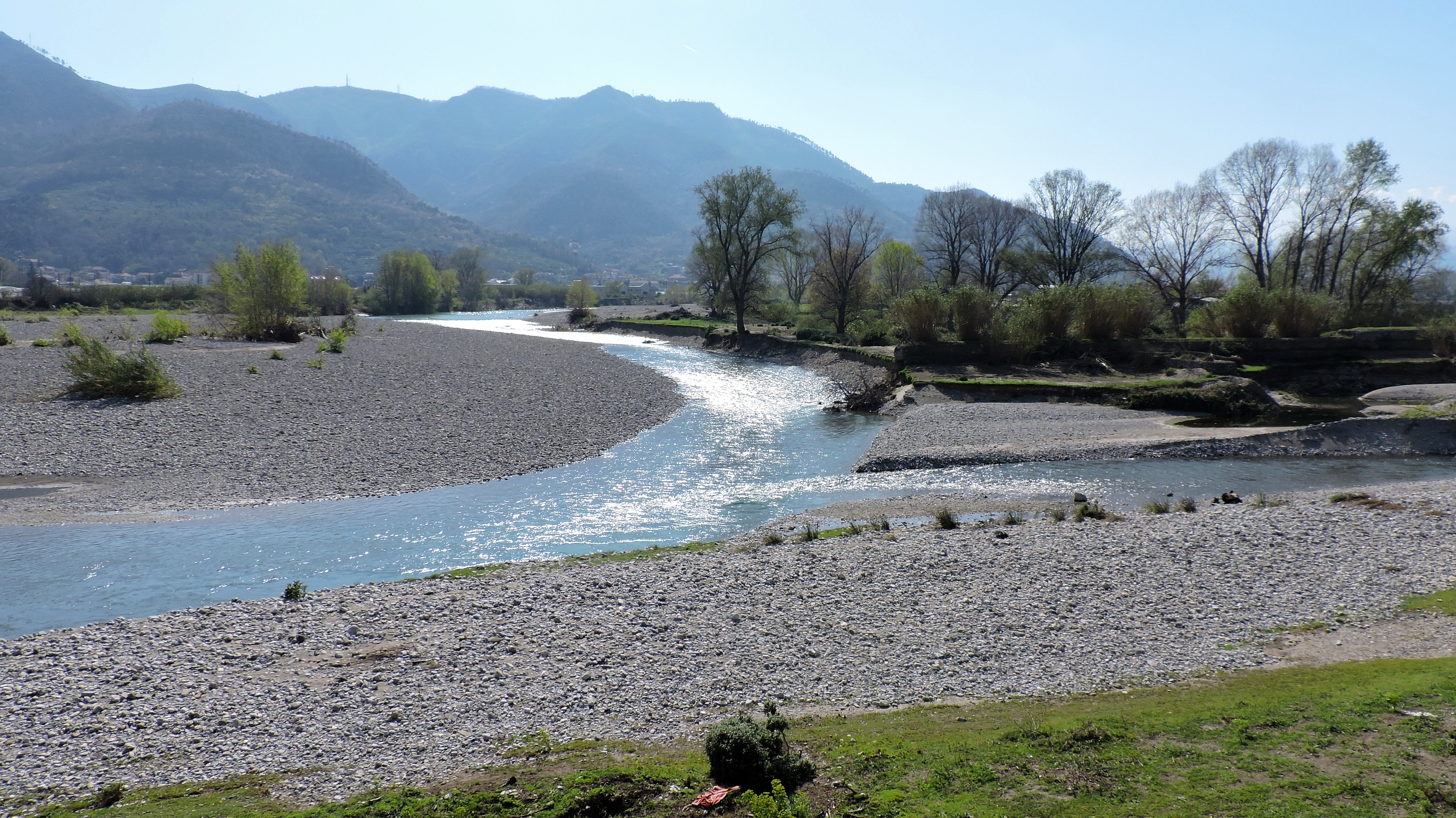 Neva (right) /Arroscia (left) confluence in the river Centa (Albenga, SV, Italy)